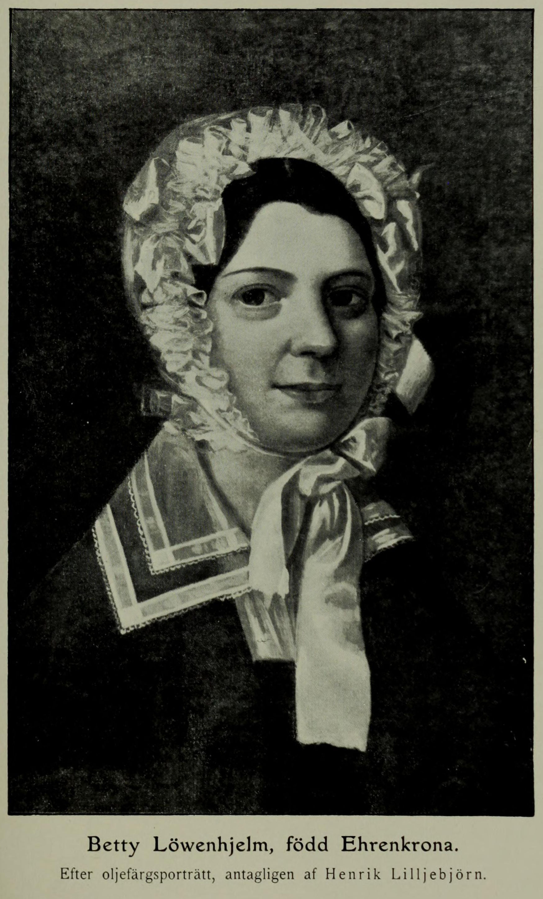 Betty Löwenhjelm born Ehrenkrona painted by Henrik Lilljebjörn?, printed in "I solnedgången : minnen och bilder från Erik Gustaf Geijers senaste lefnadsår" II, 1911